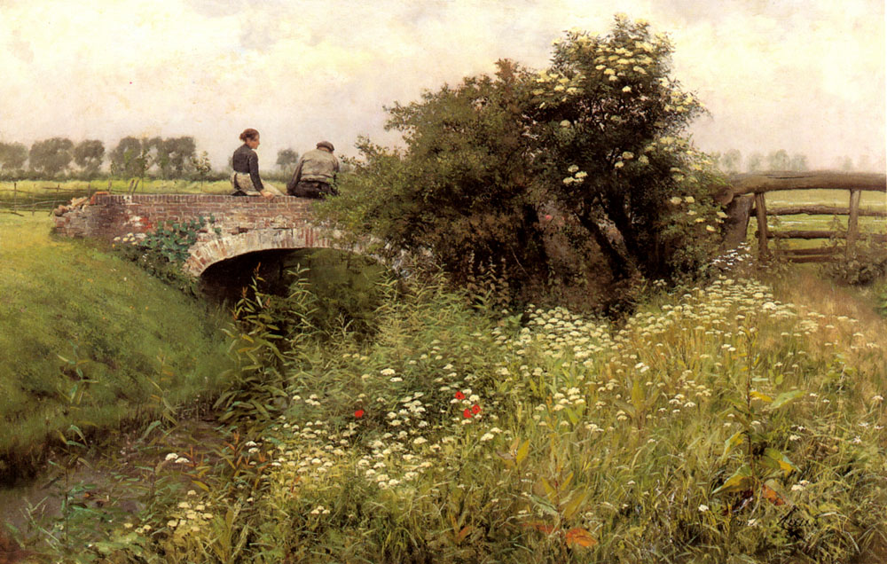 Emile Claus's art, A Meeting on the Bridge